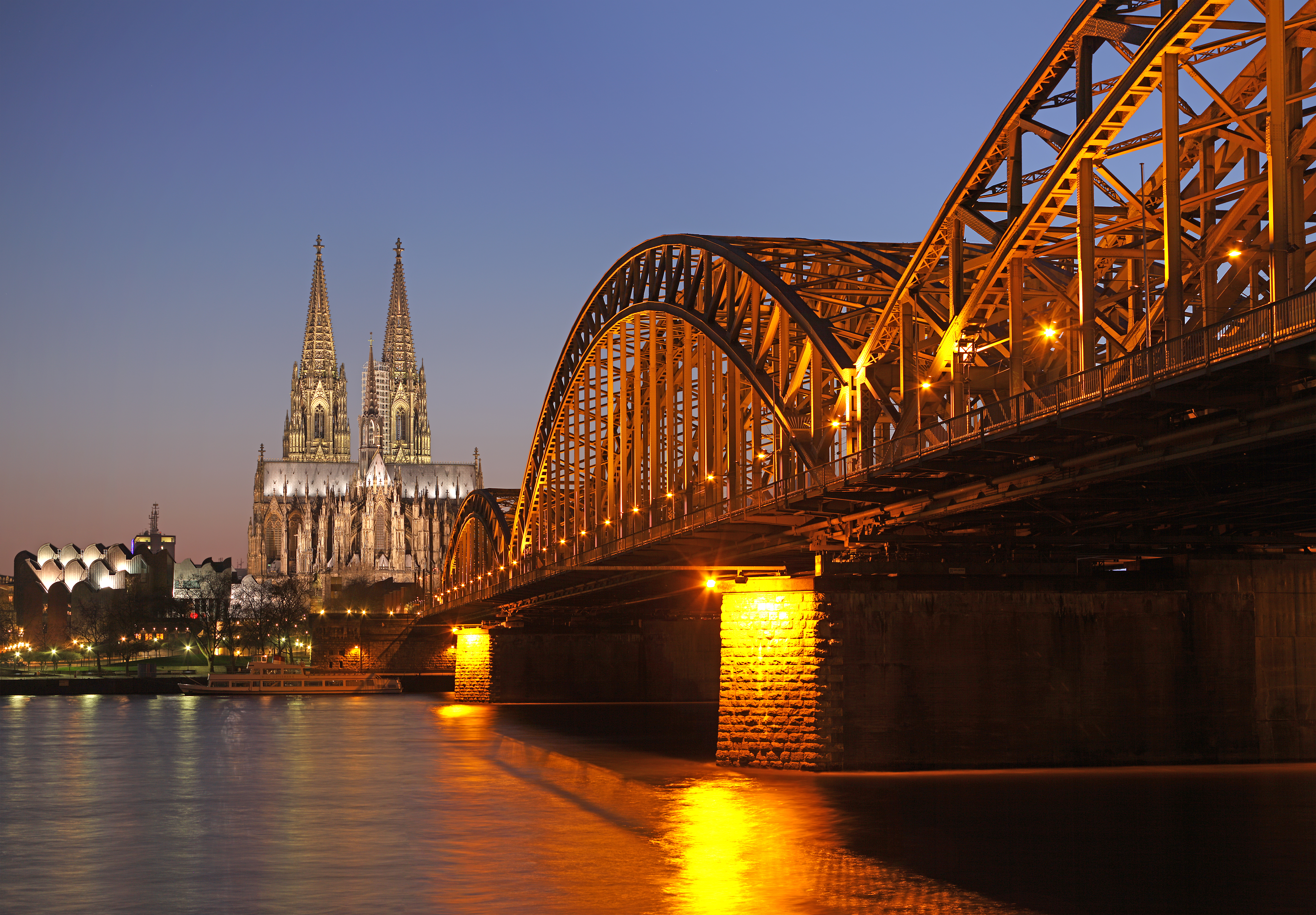 Hohenzollernbrücke in Cologne (Germany) with Cologne Cathedral in the blue hour.